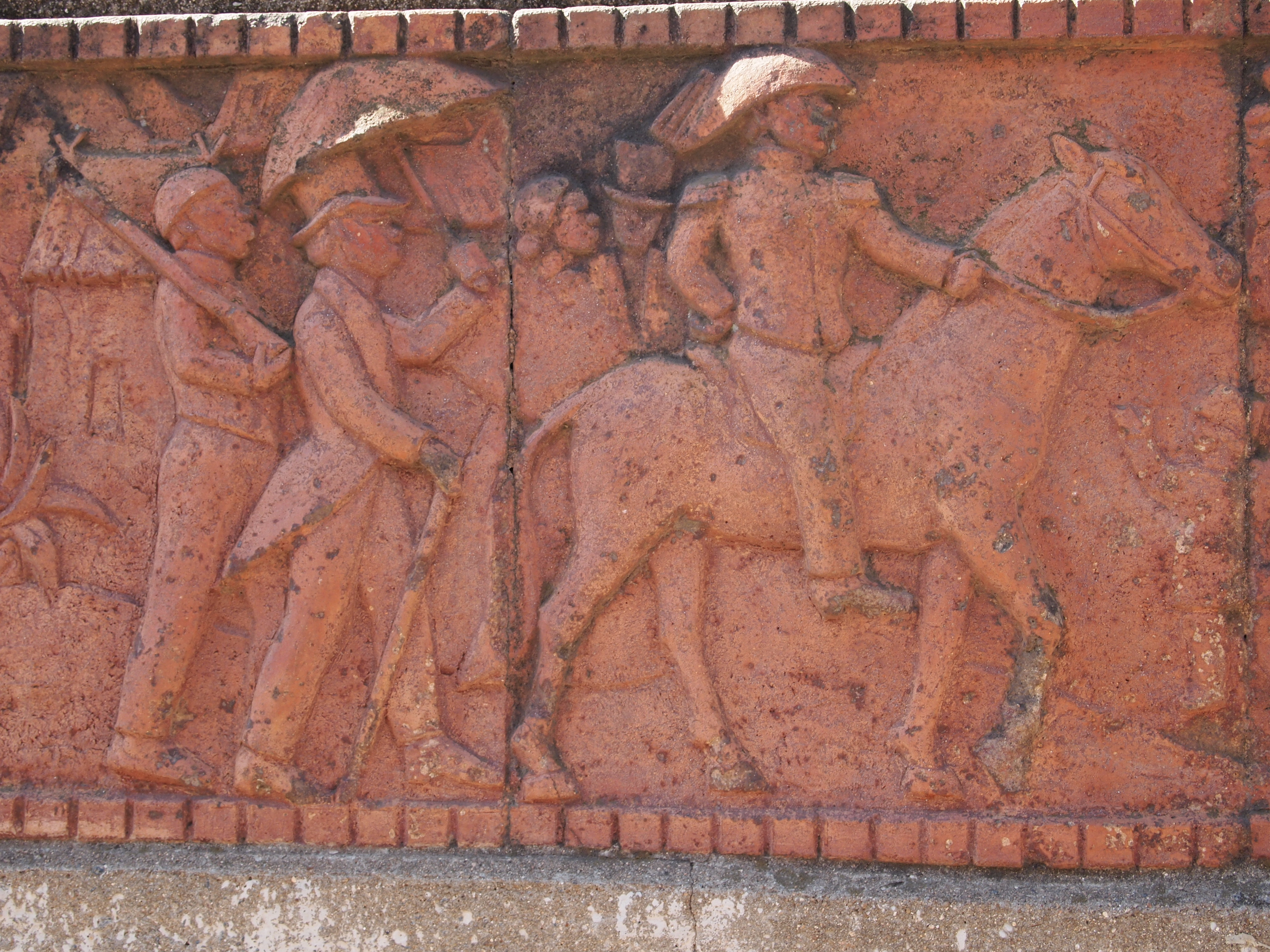 Frieze of Gallieni arriving in Antananarivo Madagascar, located outside the Rova of Antananarivo